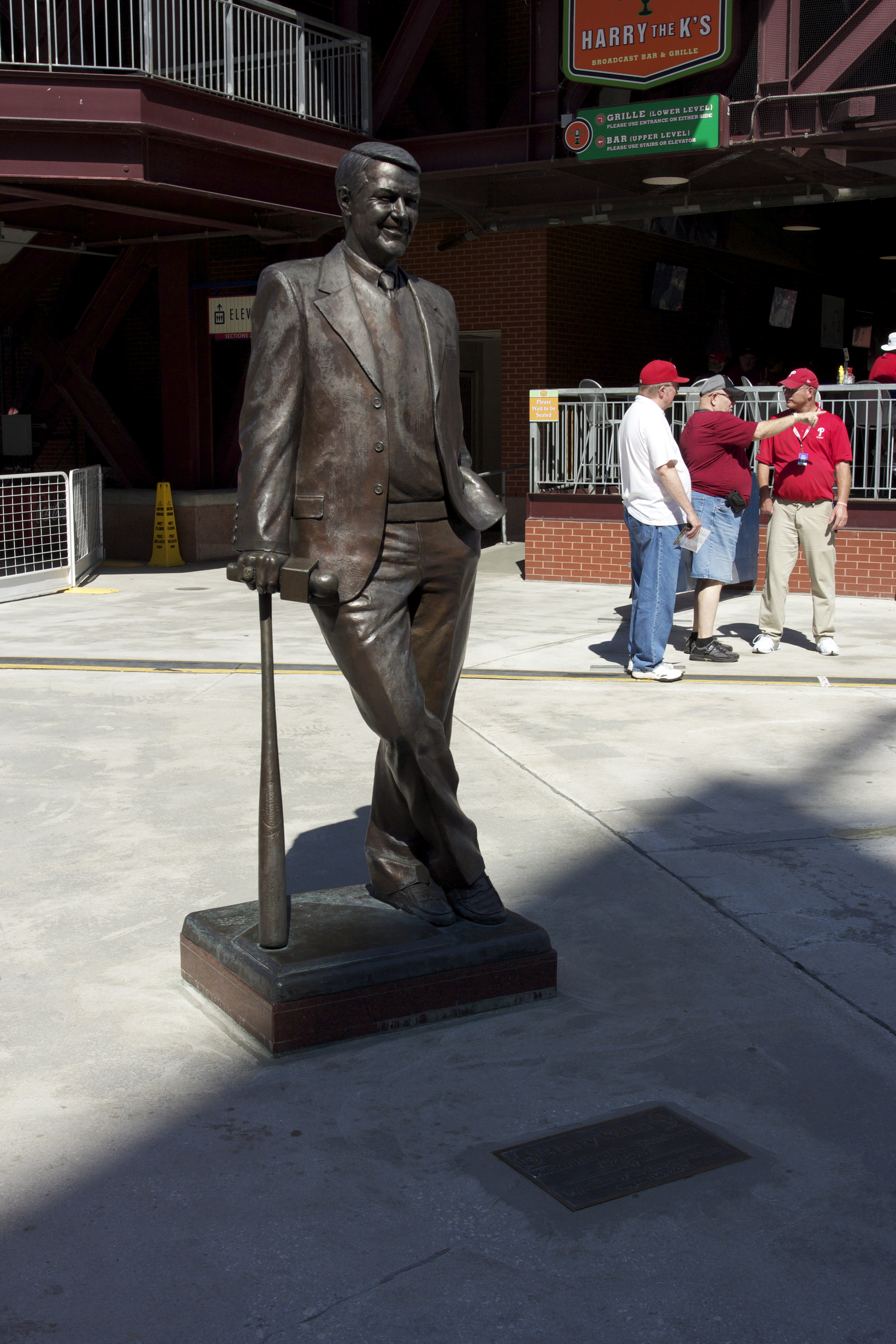 Philadelphia Phillies vs. Los Angeles Dodgers, 9/21/17